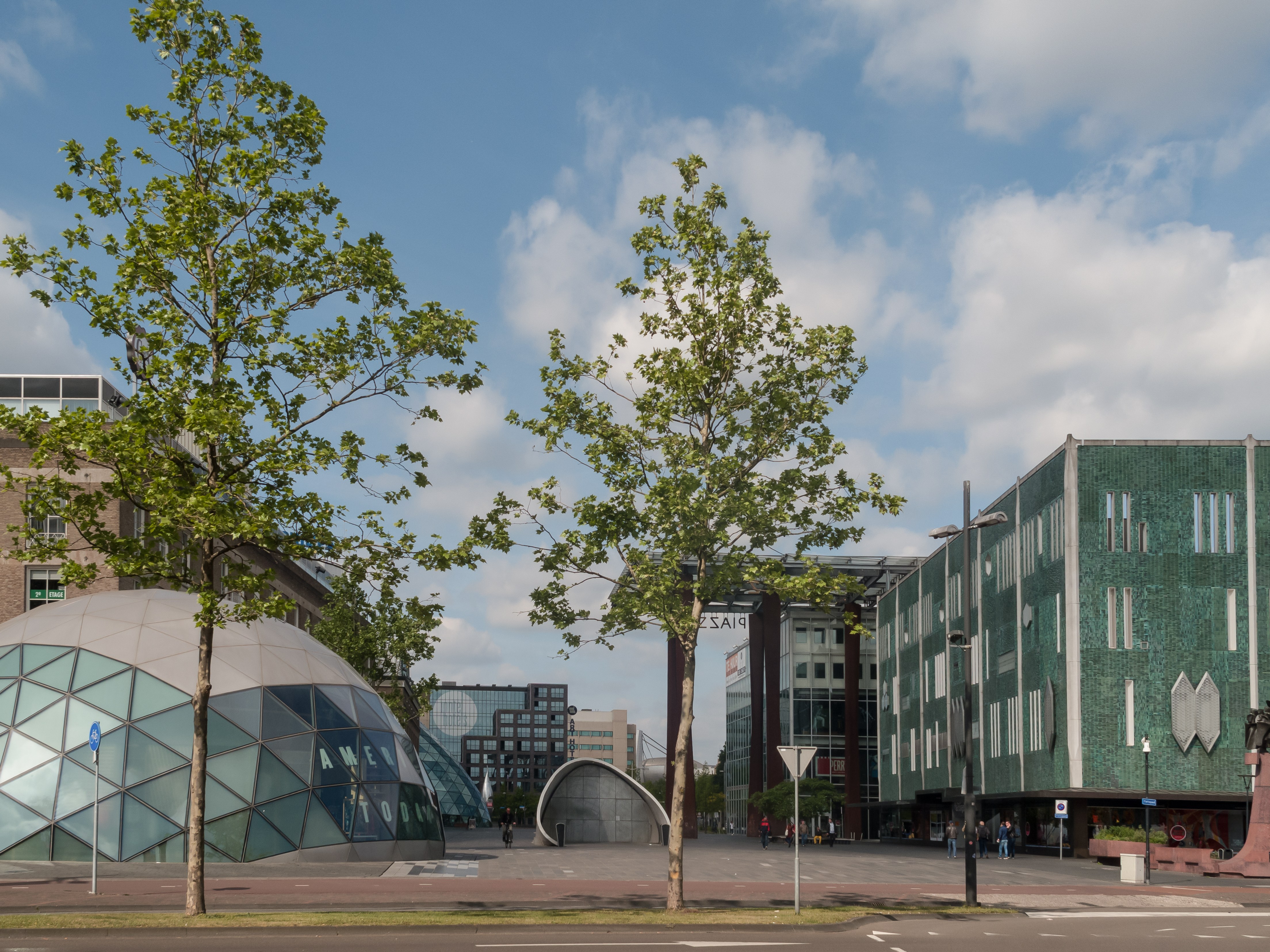 Eindhoven, view to a street: 18 Septemberplein-Vestdijk-Stationsplein